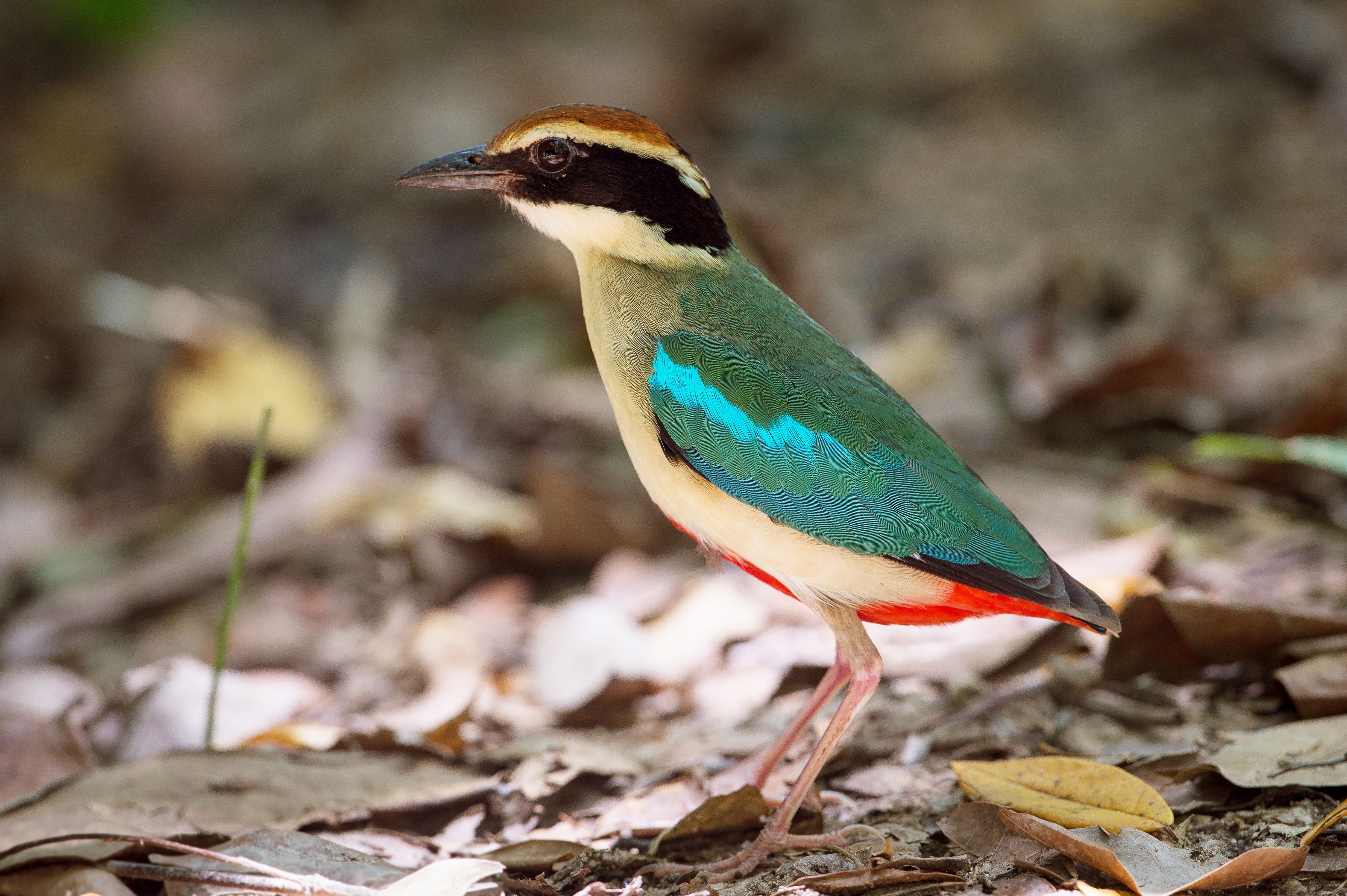 Pitta nympha, Koh Man Nai, Gulf of Thailand